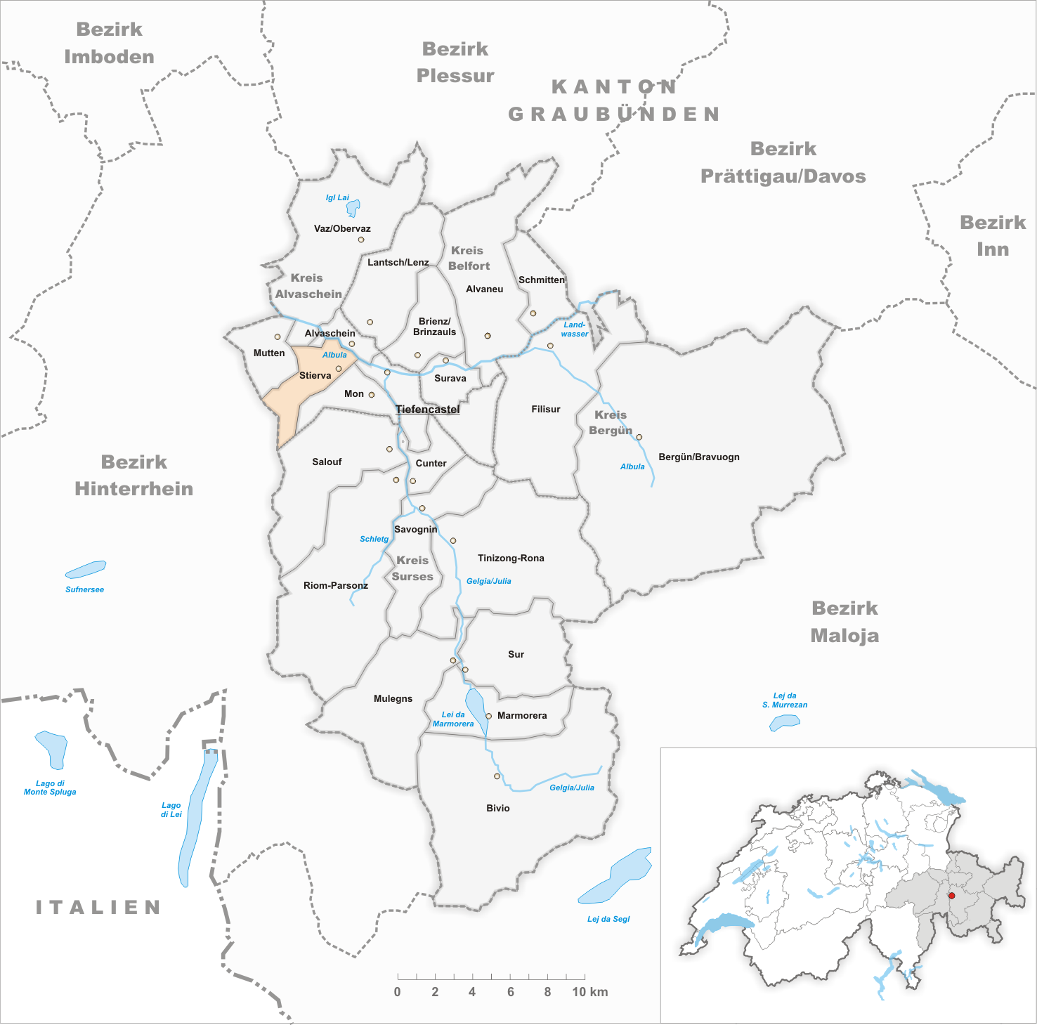 Municipality Stierva